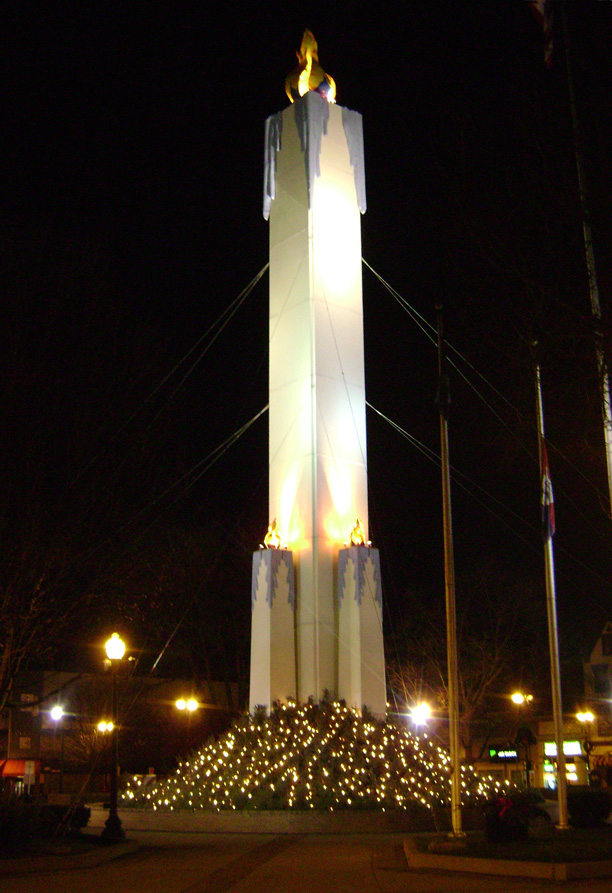 The Peace Candle, a tower-like structure erected every Christmas season in Easton, Pennsylvania. In this photo, the candle has been lit at night.